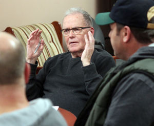 Don LeClair, Former President of Baseball PEI